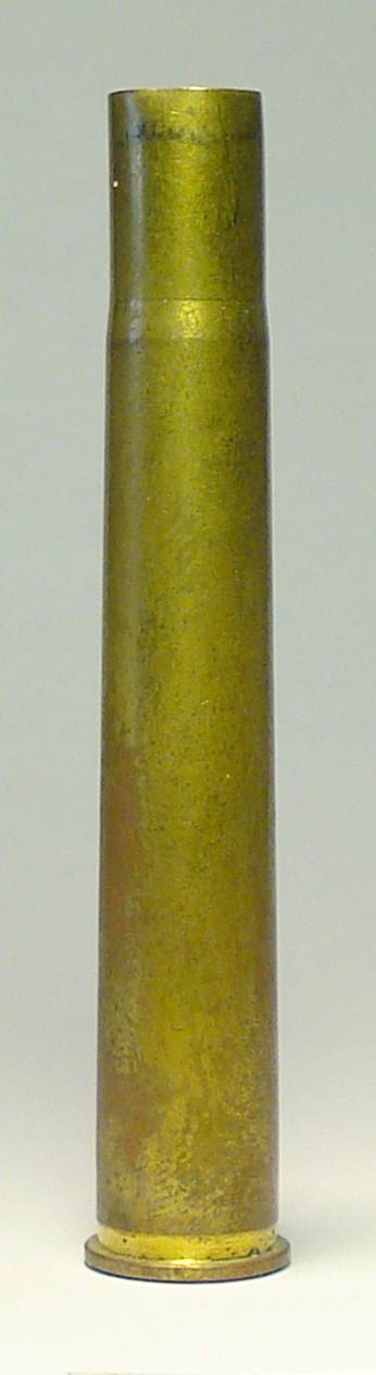 side view of a 9,3 x 74 R Foerster rifle cartridge